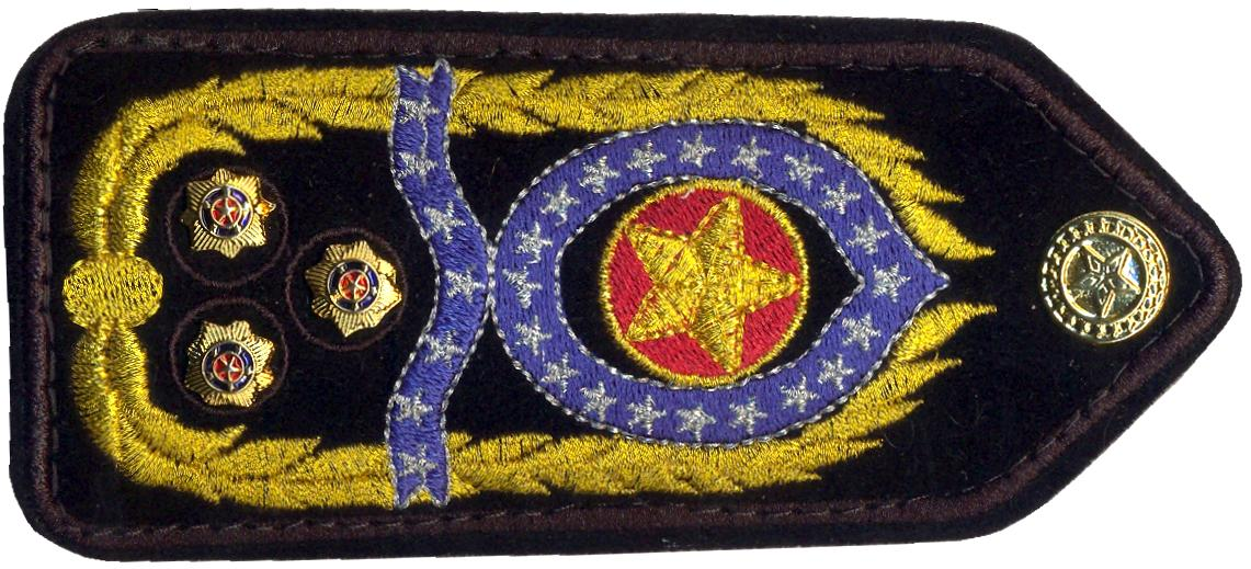 Rank of Military Police (Commander) - Brazil.